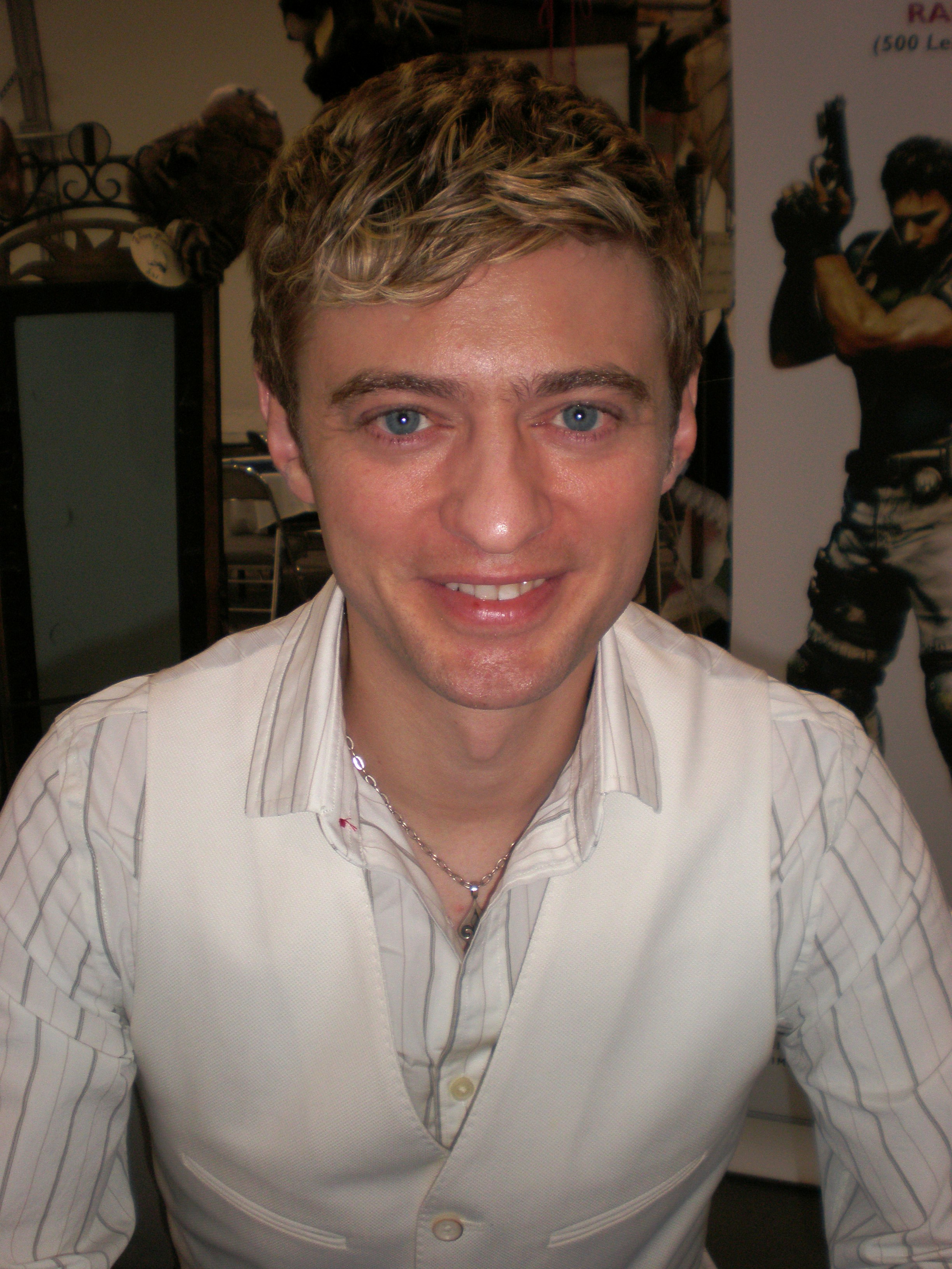 Crispin Freeman at Super-Con 2009 in San Jose, California.